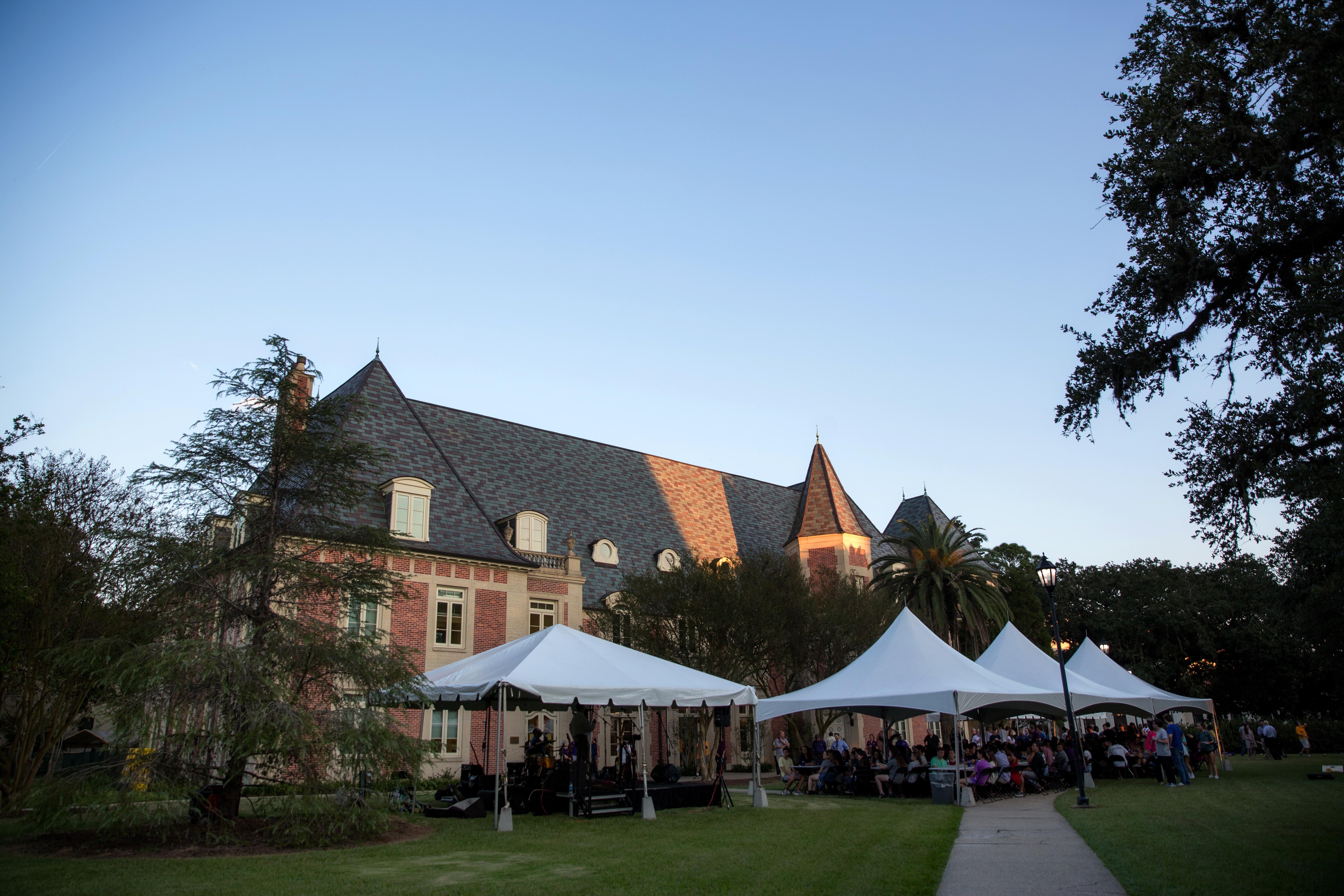 The French House on the 5th Anniversary Celebration of Honors education at LSU.